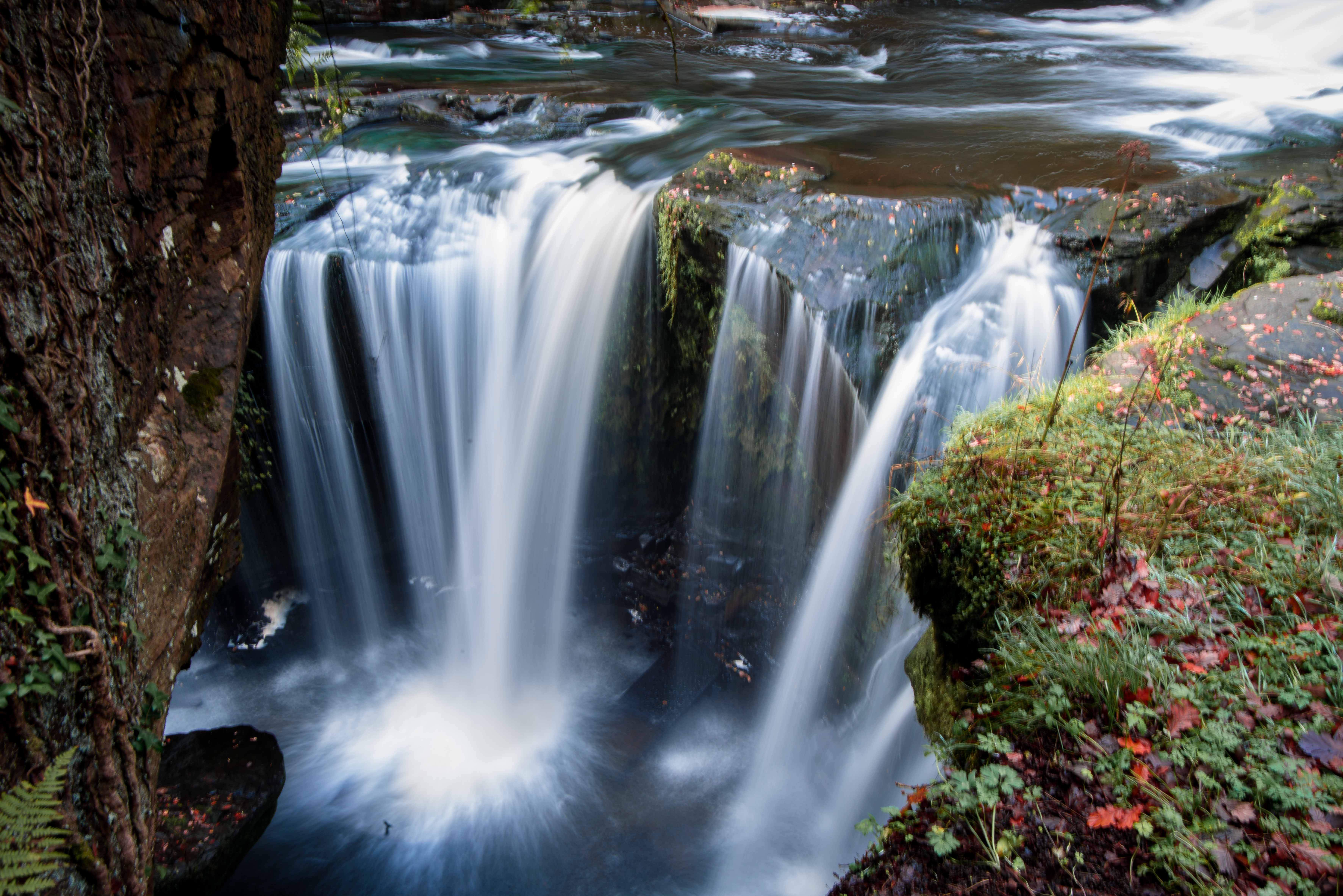 Aberdulais Falls in 2015